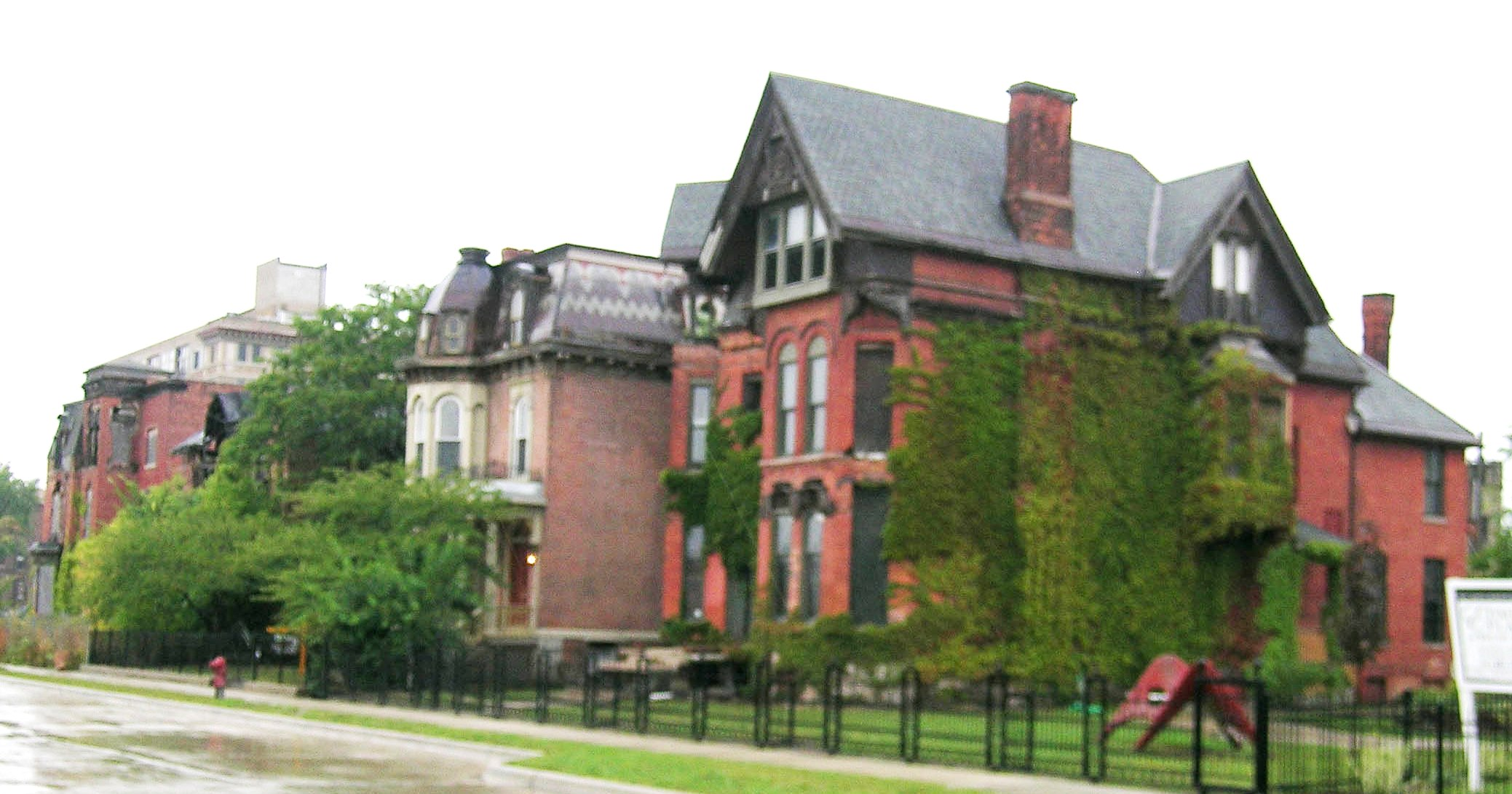 Streetscape on Edmund in the Woodward East Historic District — Detroit, Michigan. Contributing properties to the Woodward East H.D. in Midtown Detroit, which is completely encompassed by the larger Brush Park Historic District.